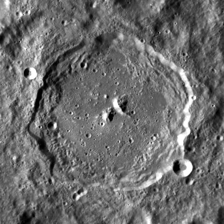 Skłodowska lunar crater - LROC image.